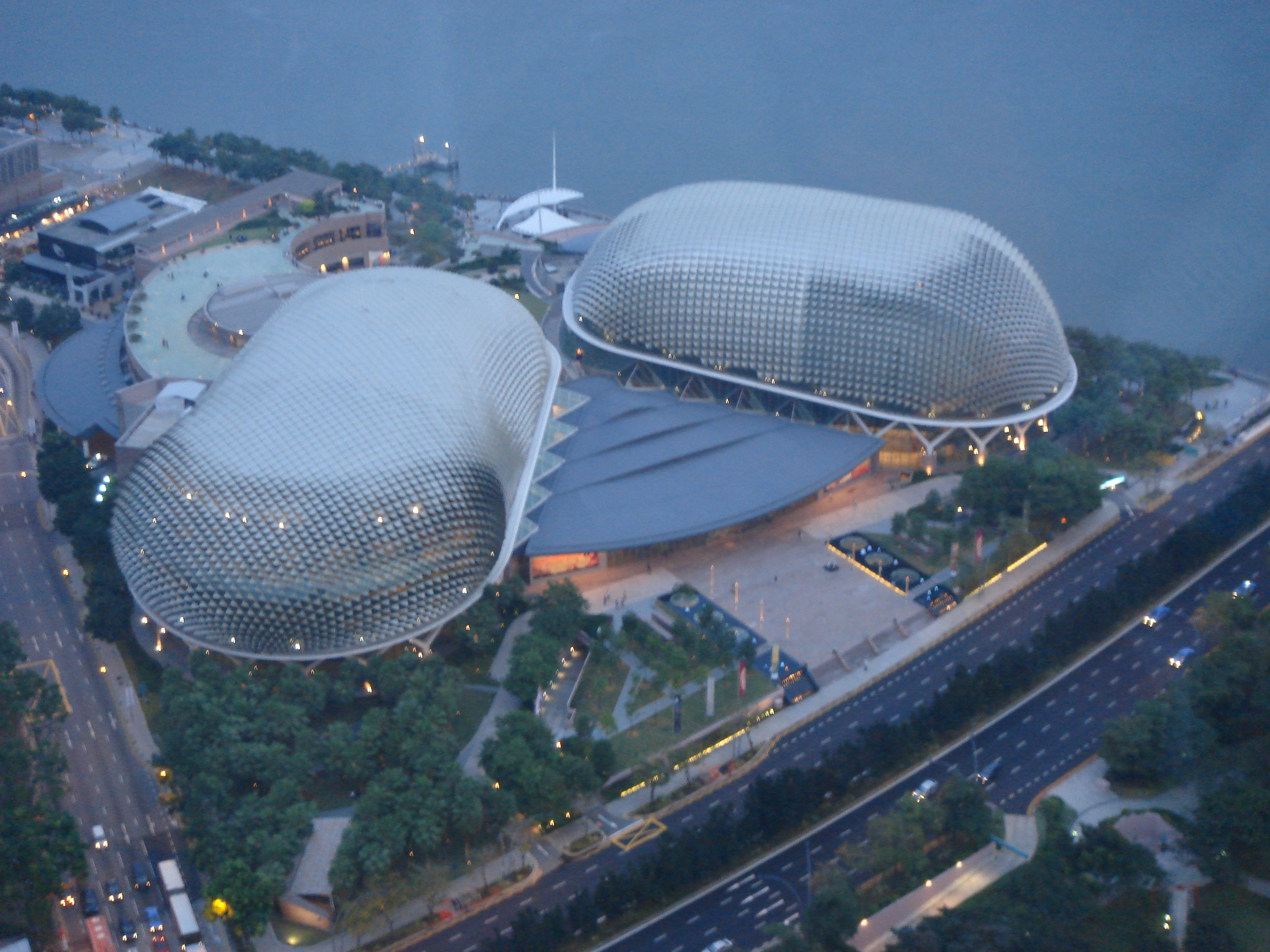 An aerial view of Singapore's Esplanade and the surrounding grounds.